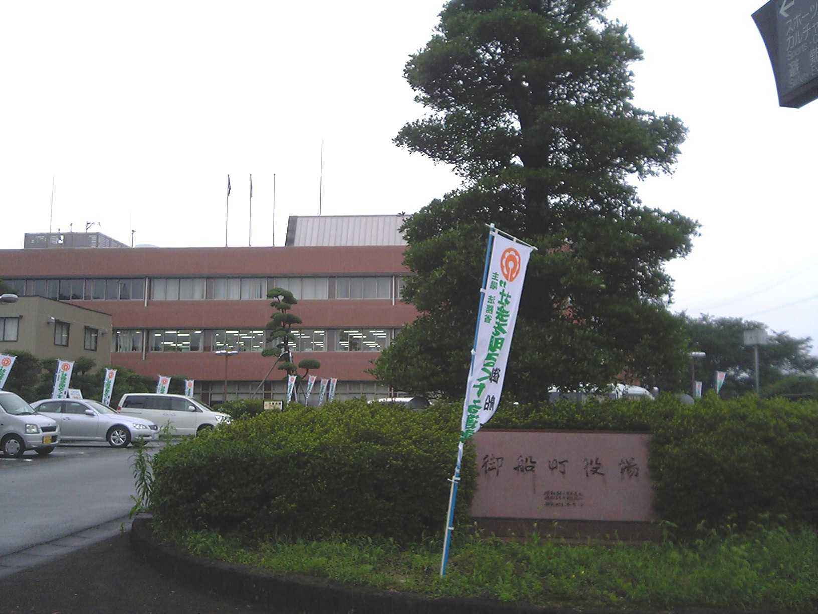 The Mifune town hall; Mifune, Kumamoto, Japan.